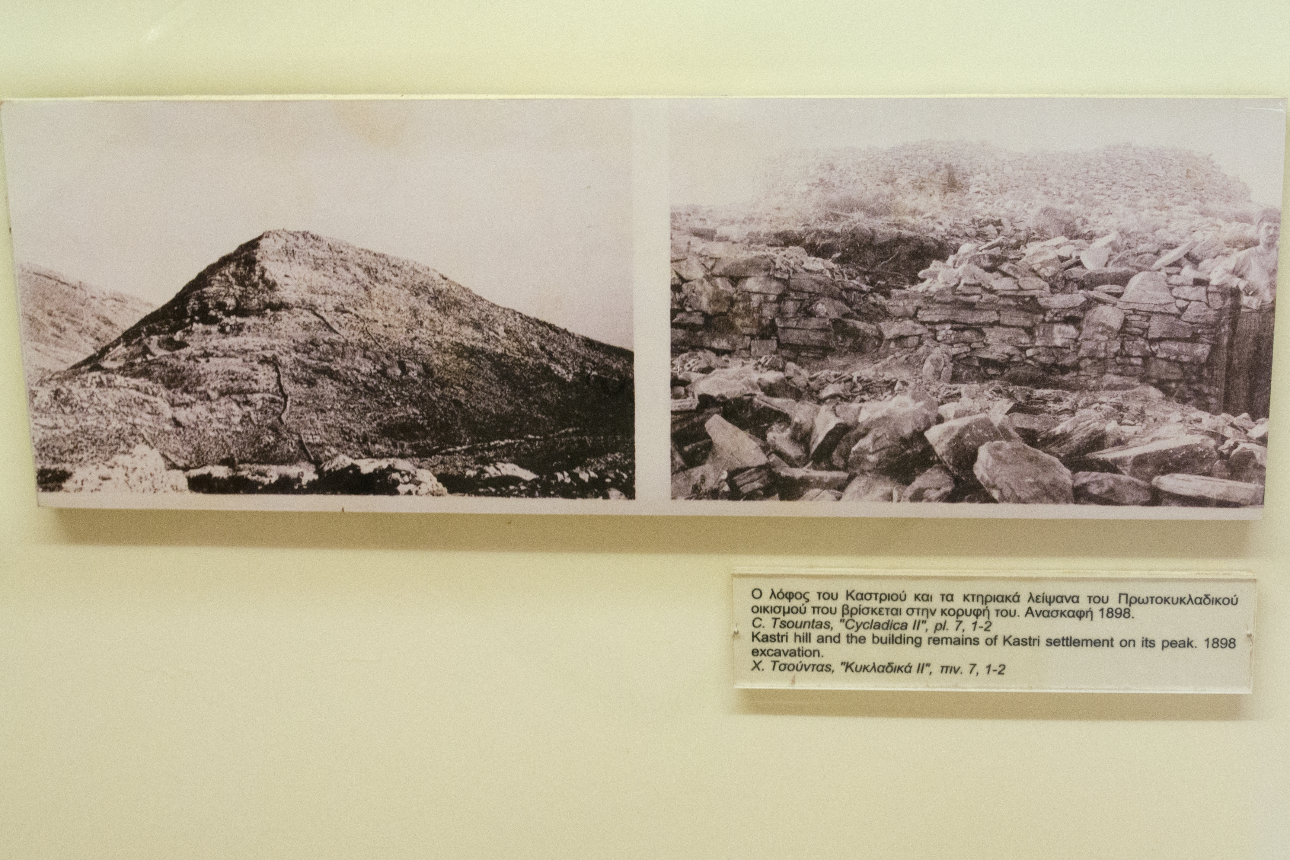 Kastri hill and the building remains of Kastri settlement on its peak, 1898 excavation. Kastri group, 2300-2200 BC. Photos from Ch. Tsountas, Kykladika II; 7, 1-2. Archaeological Museum of Syros, Room 3.